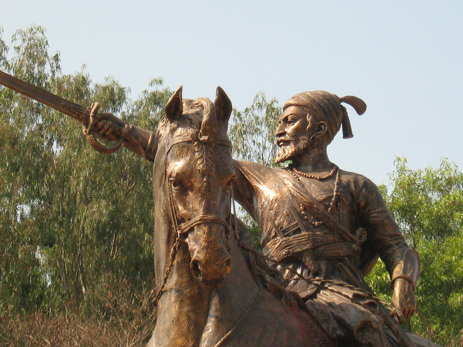 Chhatrapati Shivaji - the hero of India, who fought against foreign invaders